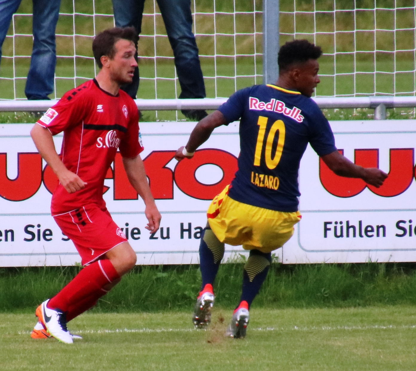 friendly match preseason